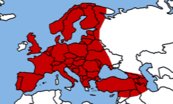 Geographical Extension of European Roe (Capreolus capreolus)